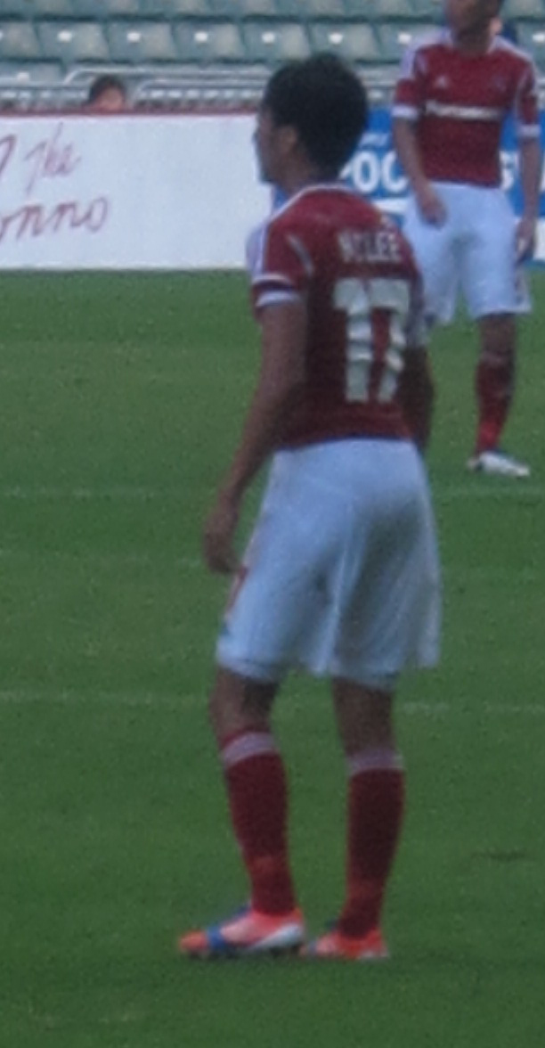 Lee Hong Lim (2 September 2012, 2012–13 Hong Kong First Division League vs Yokohama FC Hong Kong at Hong Kong Stadium)